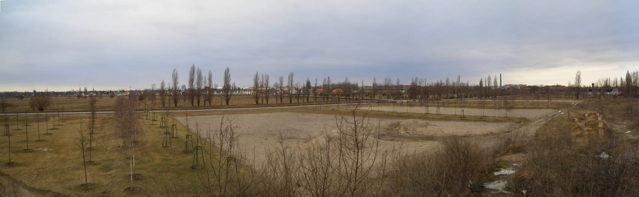 A part of the former Johannisthal Air Field ("Flugplatz Johannisthal") in Berlin, today: "Johannisthal/Adlershof" landscape park (protected landscape area and nature reserve)